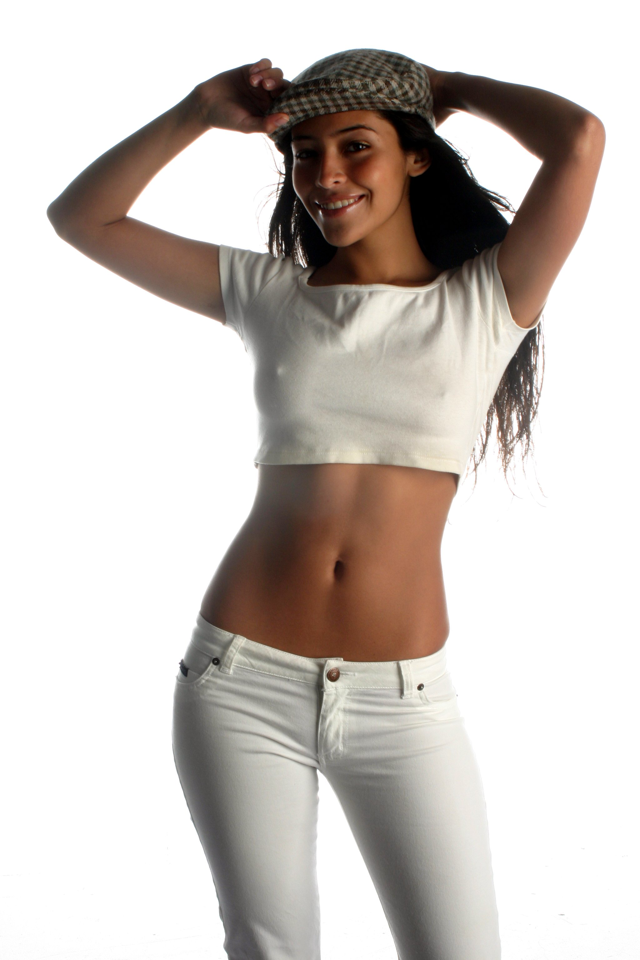 Young woman in low-rise jeans.paulina 2 033